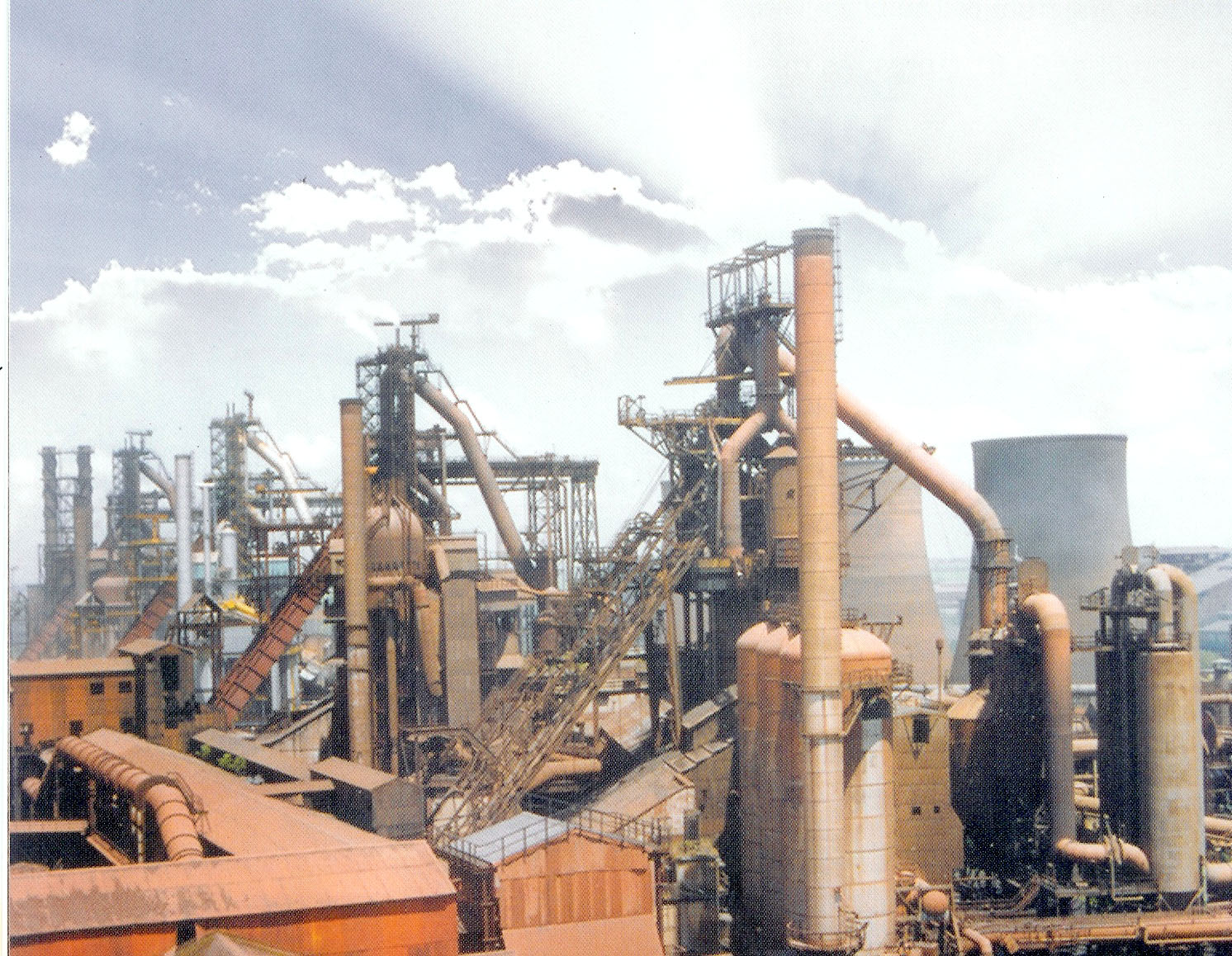 Pic courtesy DSP PR Source: Pic taken by the Public Relations department of Durgapur Steel Plant. No copyright on this photograph. The PR department supplies and allows photographs to be published.